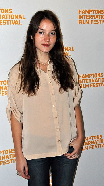 Actress Anais Demoustier attends Breakthrough Performers Brunch during 18th Annual Hamptons Film Festival on October 10, 2010 at Nick & Toni's Restaurant in East Hampton, New York. (Photo © Nick Stepowyj)